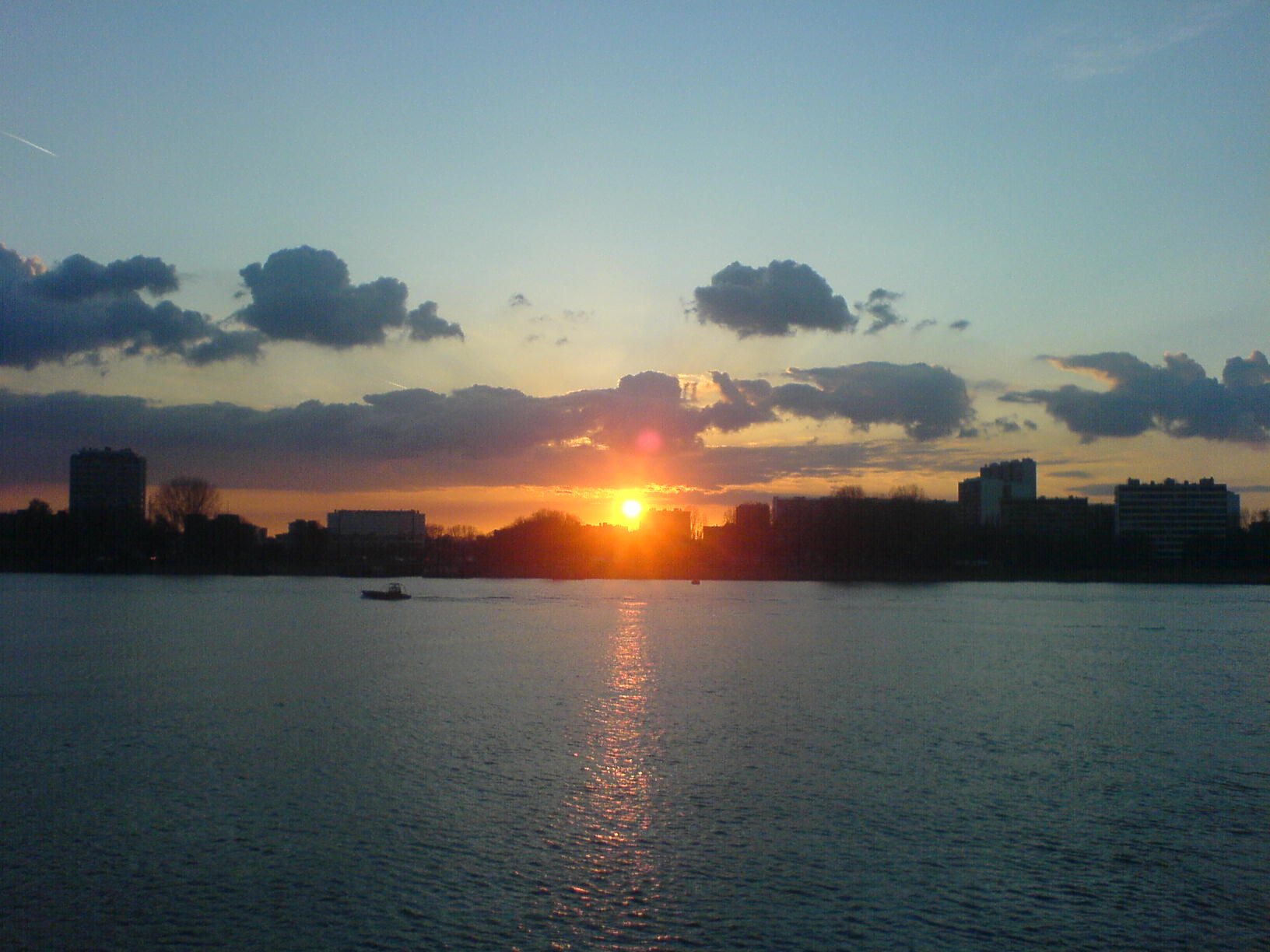 Linkeroever (part of Antwerp at the left bank of the Scheldt)